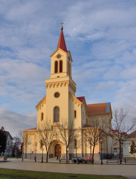 Zrenjanin Cathedral of the Saint John of Nepomuk in January 2007